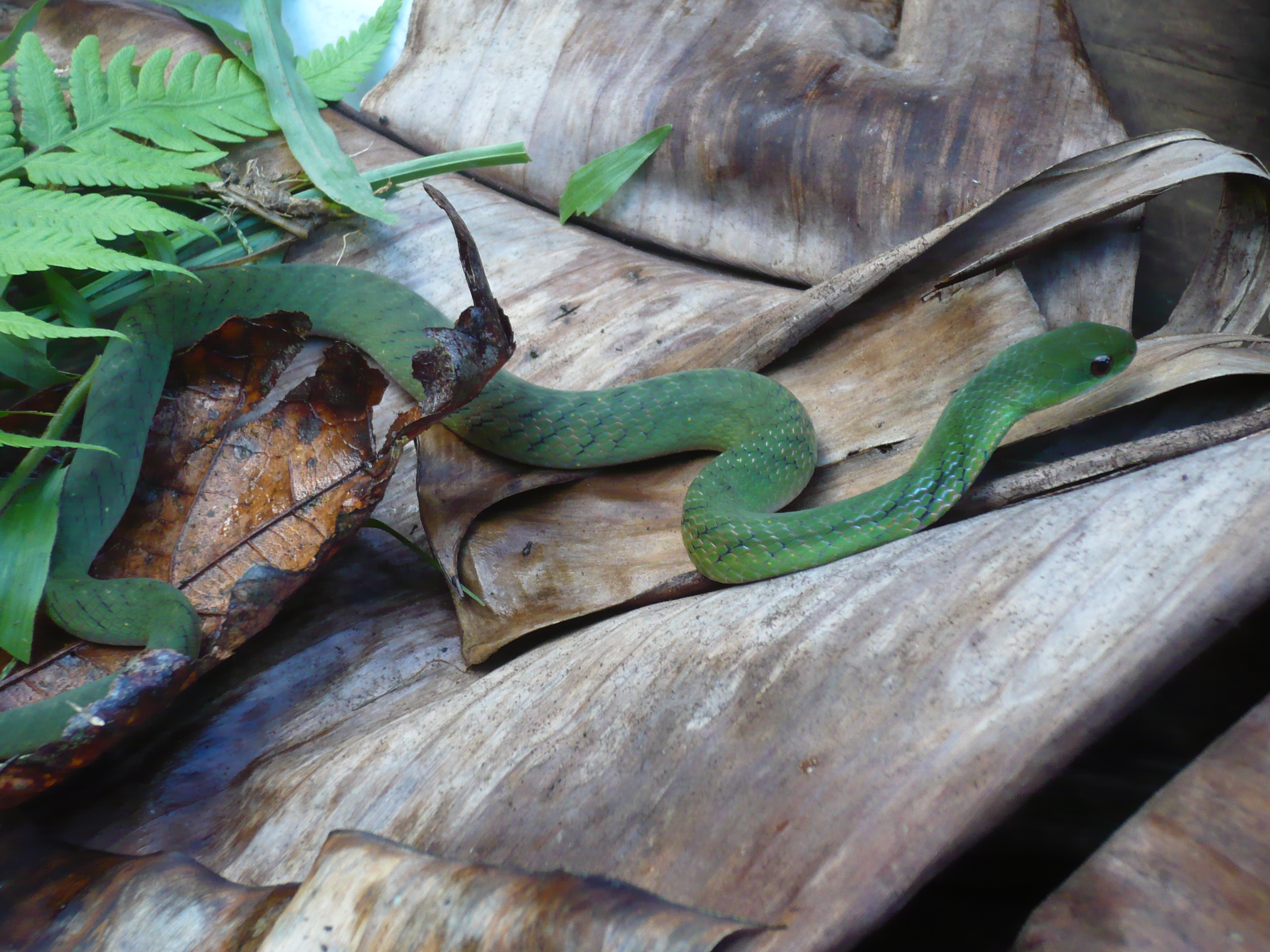 Liophis typhlus in Madre de Dios, Peru.